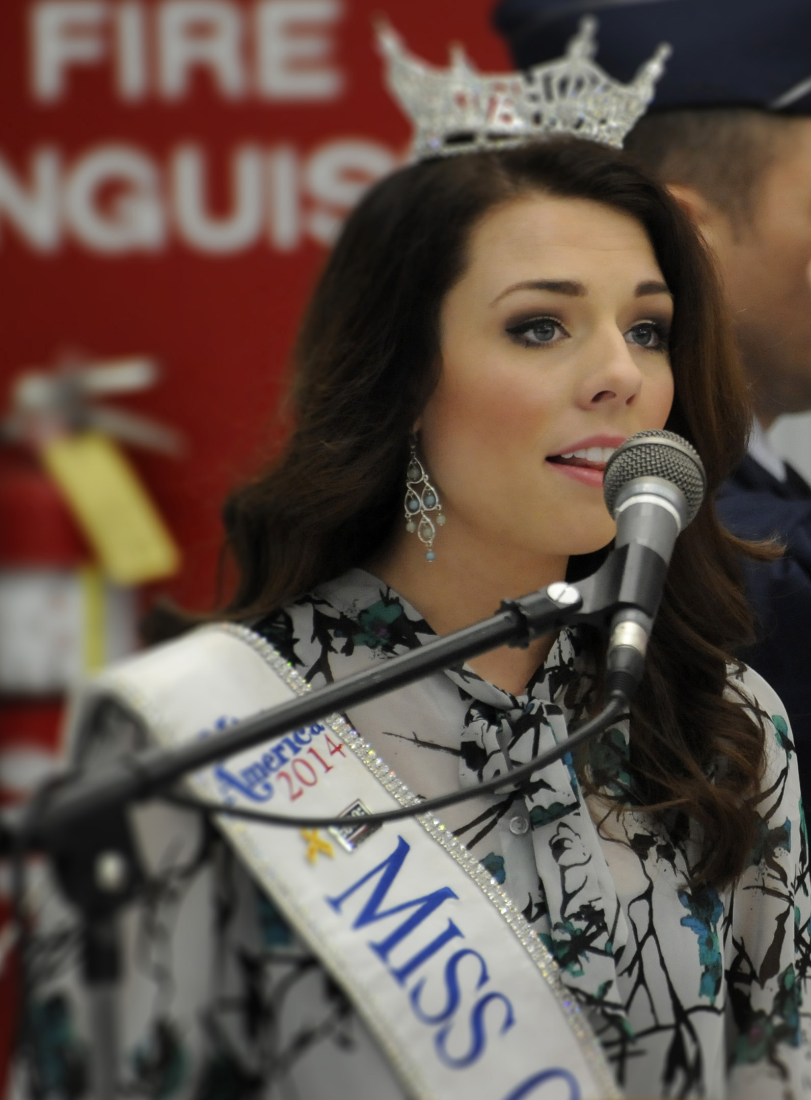 Miss Oregon Rebecca Anderson sings the National Anthem to kick off the Demobilization Ceremony for the 142nd Fighter Wing Civil Engineer Squadron and Security Forces Squadron at the Portland Air National Guard Base, Ore., Dec. 7, 2014. (U.S. Air National Guard photo by Tech. Sgt. John Hughel, 142nd Fighter Wing Public Affairs/Released)